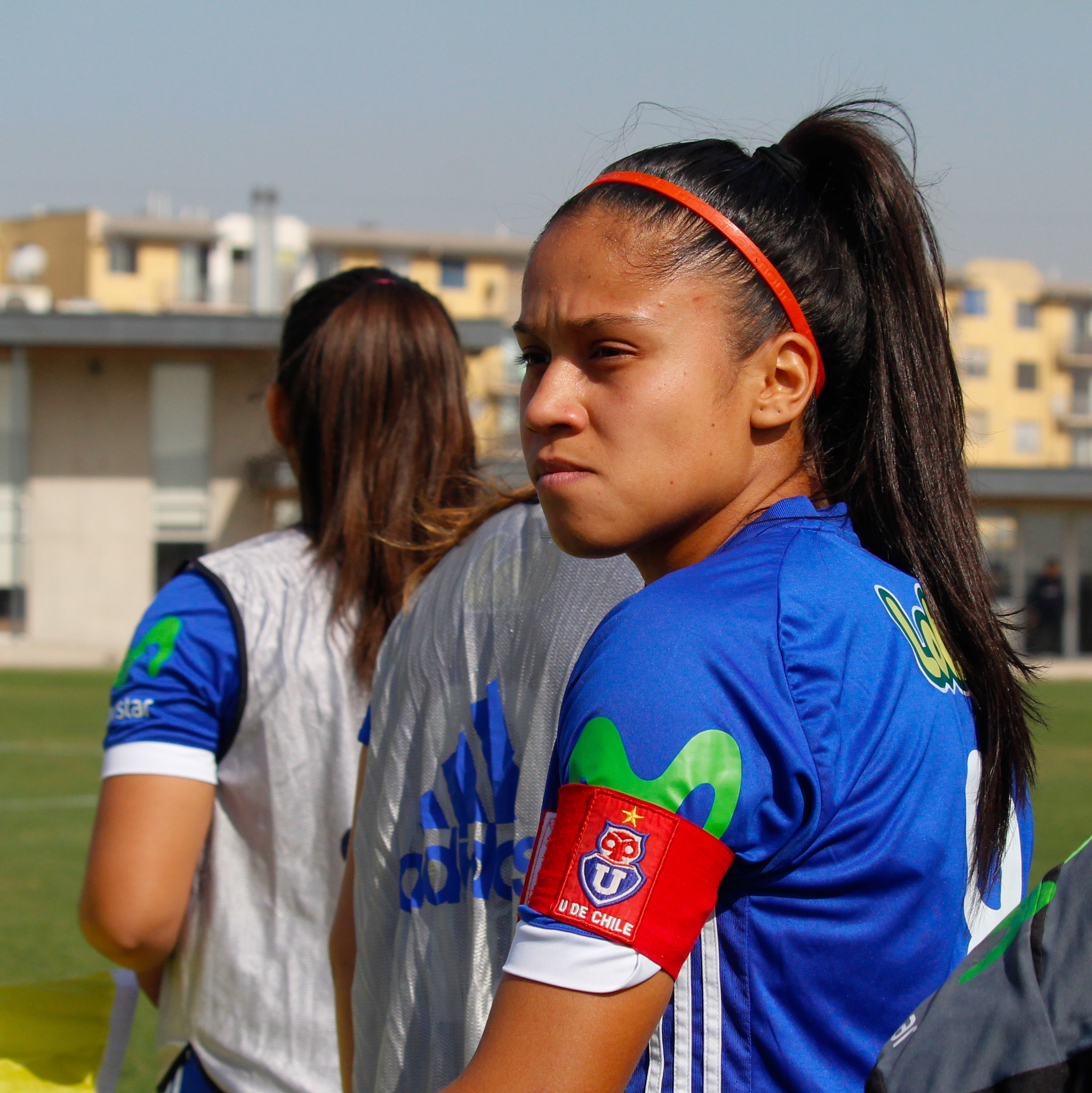 La capitana Fernanda Pinilla de Universidad de Chile y seleccionada "La Roja" de fútbol femenino disputa la primera fecha del Campeonato de Fútbol Femenino Chile 2018